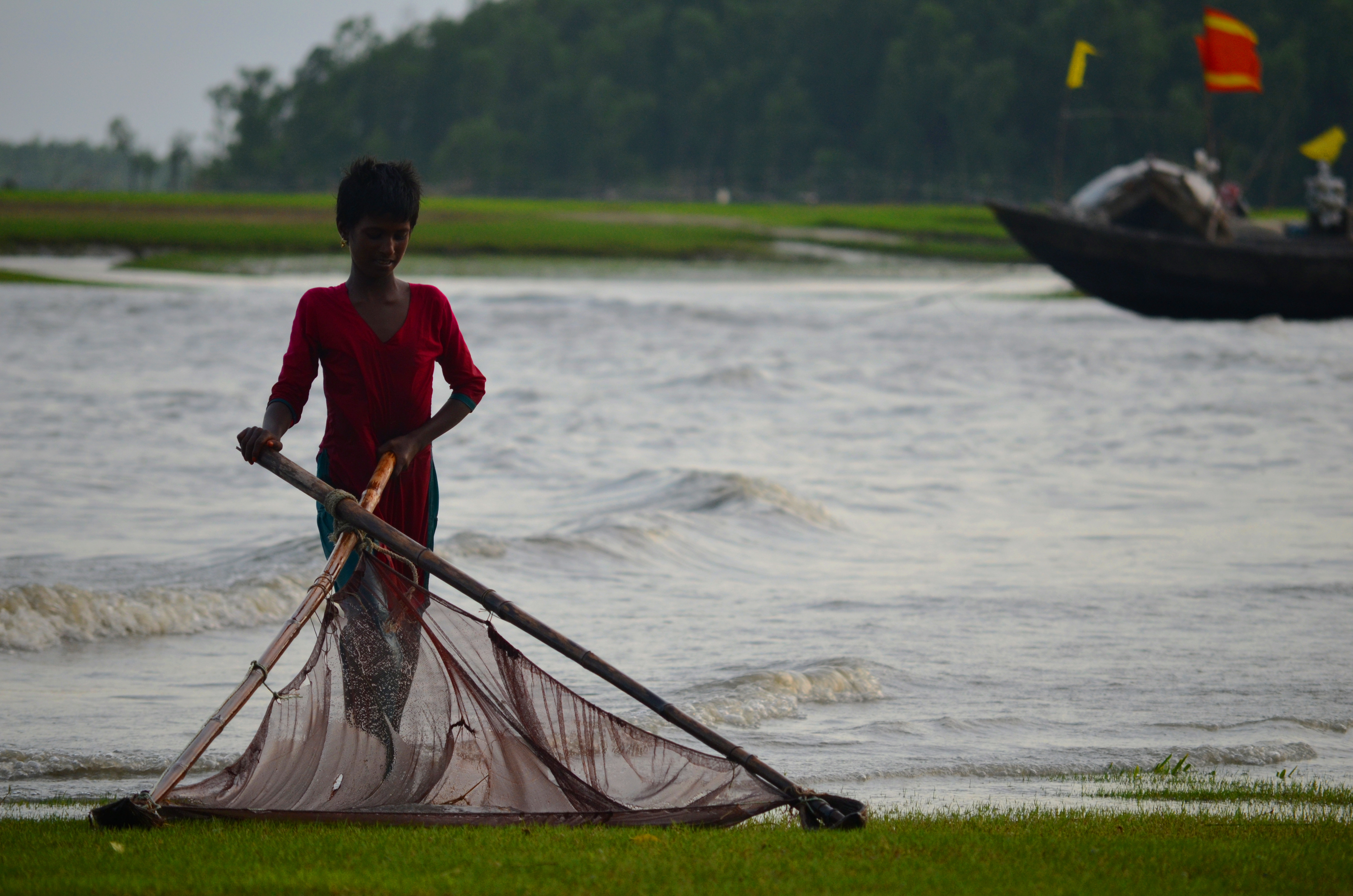 They are work on meghna river in bangladesh.